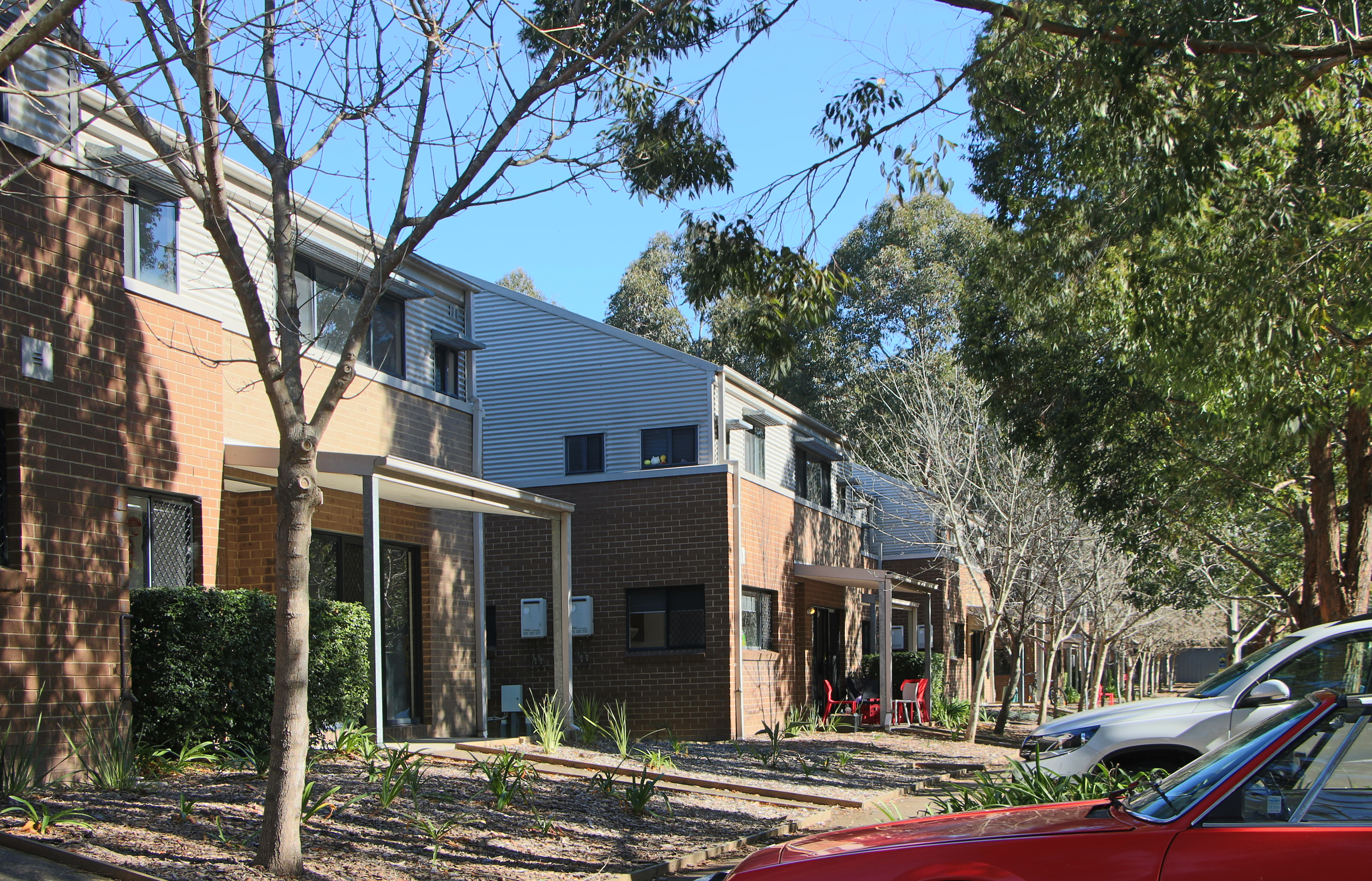 Student accommodation in the Northern Sydney (Australia) suburb of Marsfield, catering for Macquarie University.